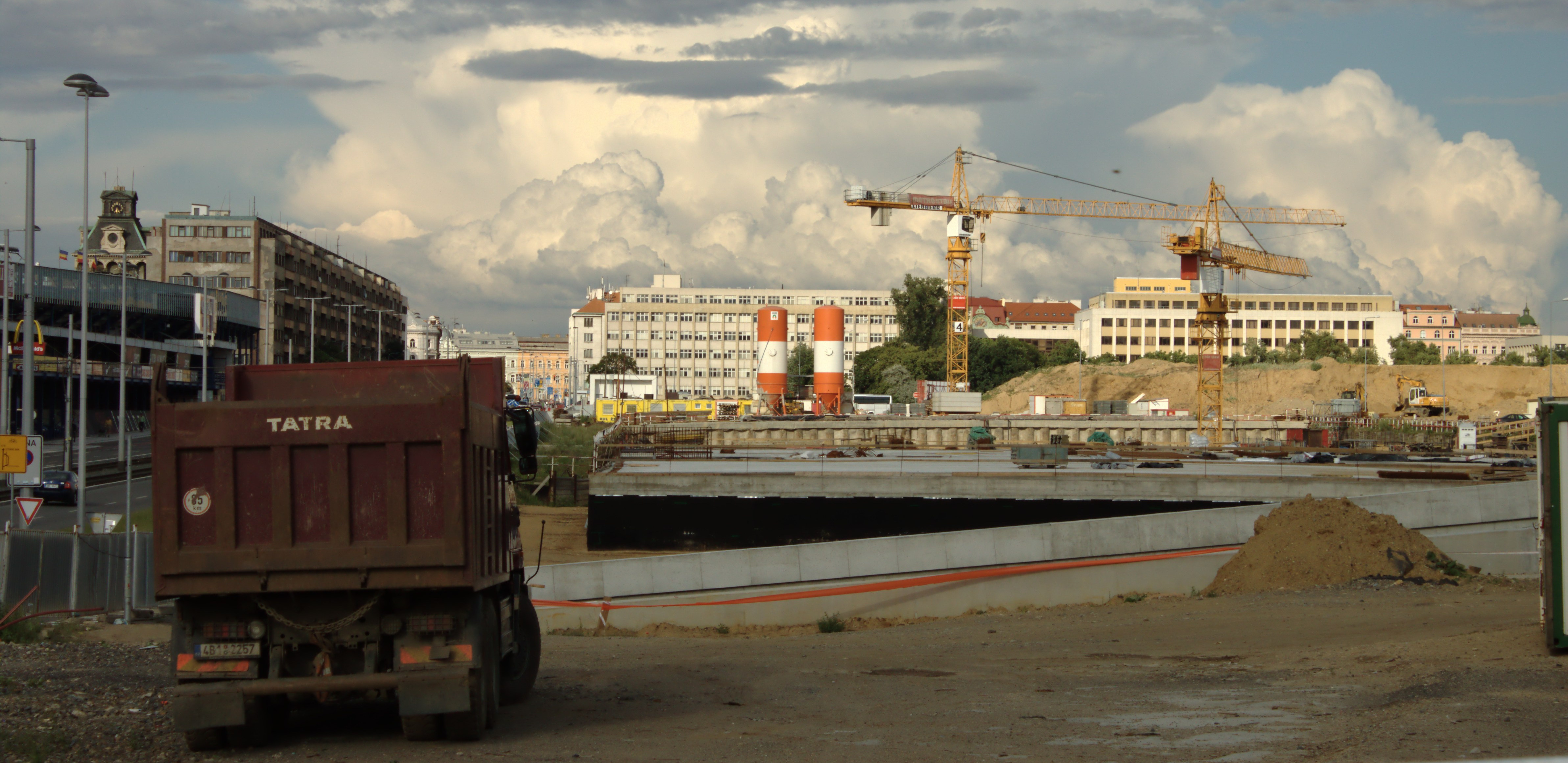 Blanka Tunnel under construction at Letná-Prague, CZ